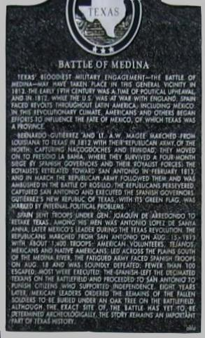 Battle of Medina -State Marker- Near Leming, Texas